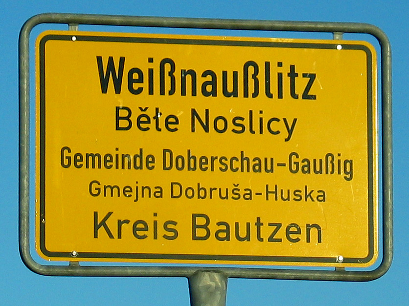 Bilingual, German-Sorbian place-name sign of the village Weißnaußlitz (Doberschau-Gaußig) in the district of Bautzen in Saxony, Germany. It contains 79 characters (with hyphens, without spaces).